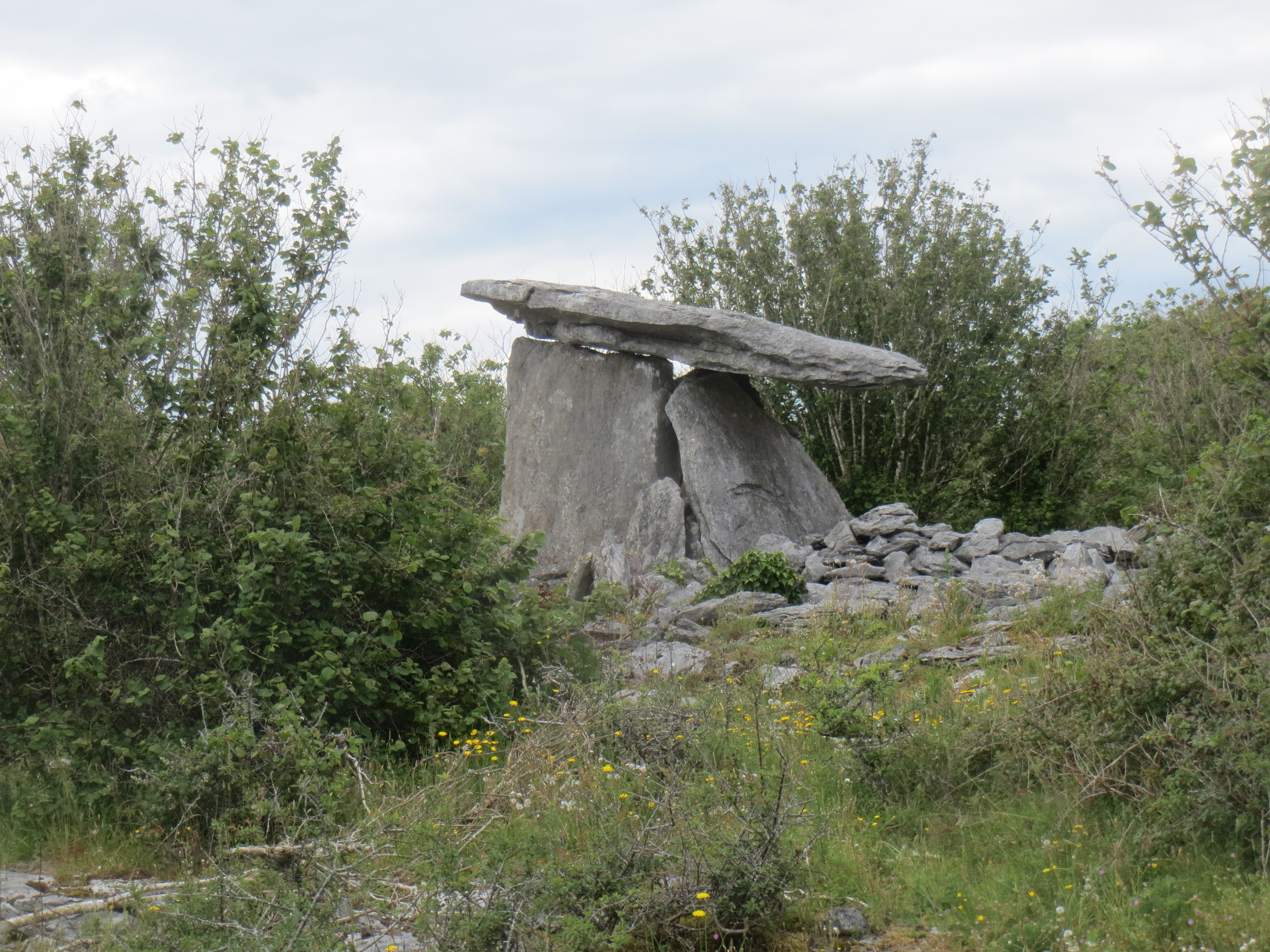 Crannagh Portal Tomb